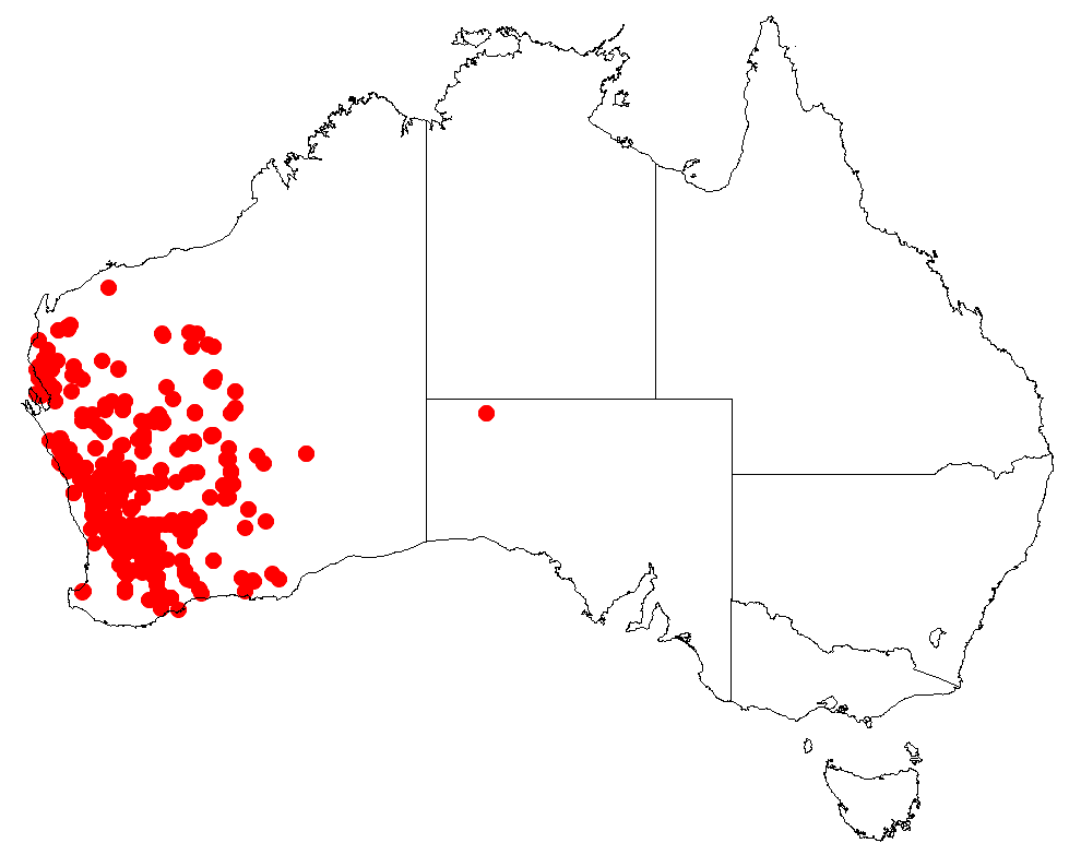 Hakea preissii Occurrence data downloaded from Australasian Virtual Herbarium on 22 November 2018 using